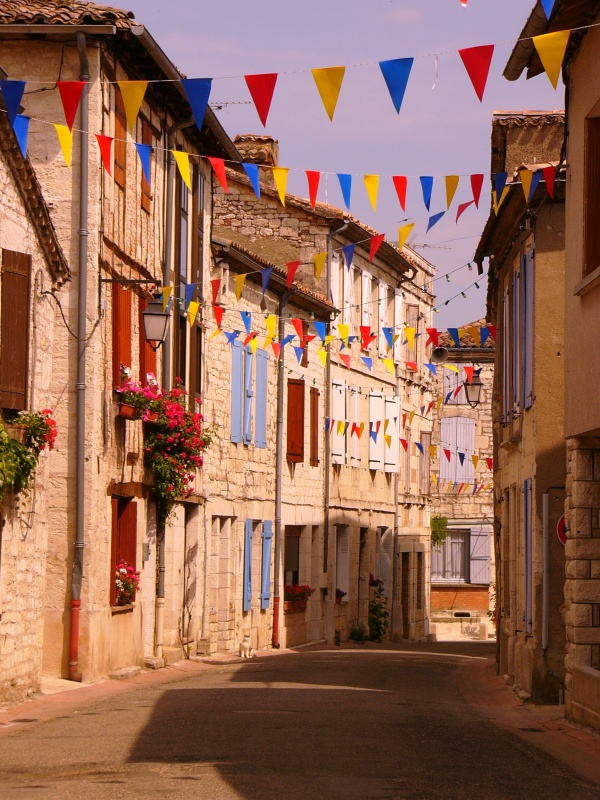 Picture of the street behind the "porte de la ville" in Montpezat de quercy France